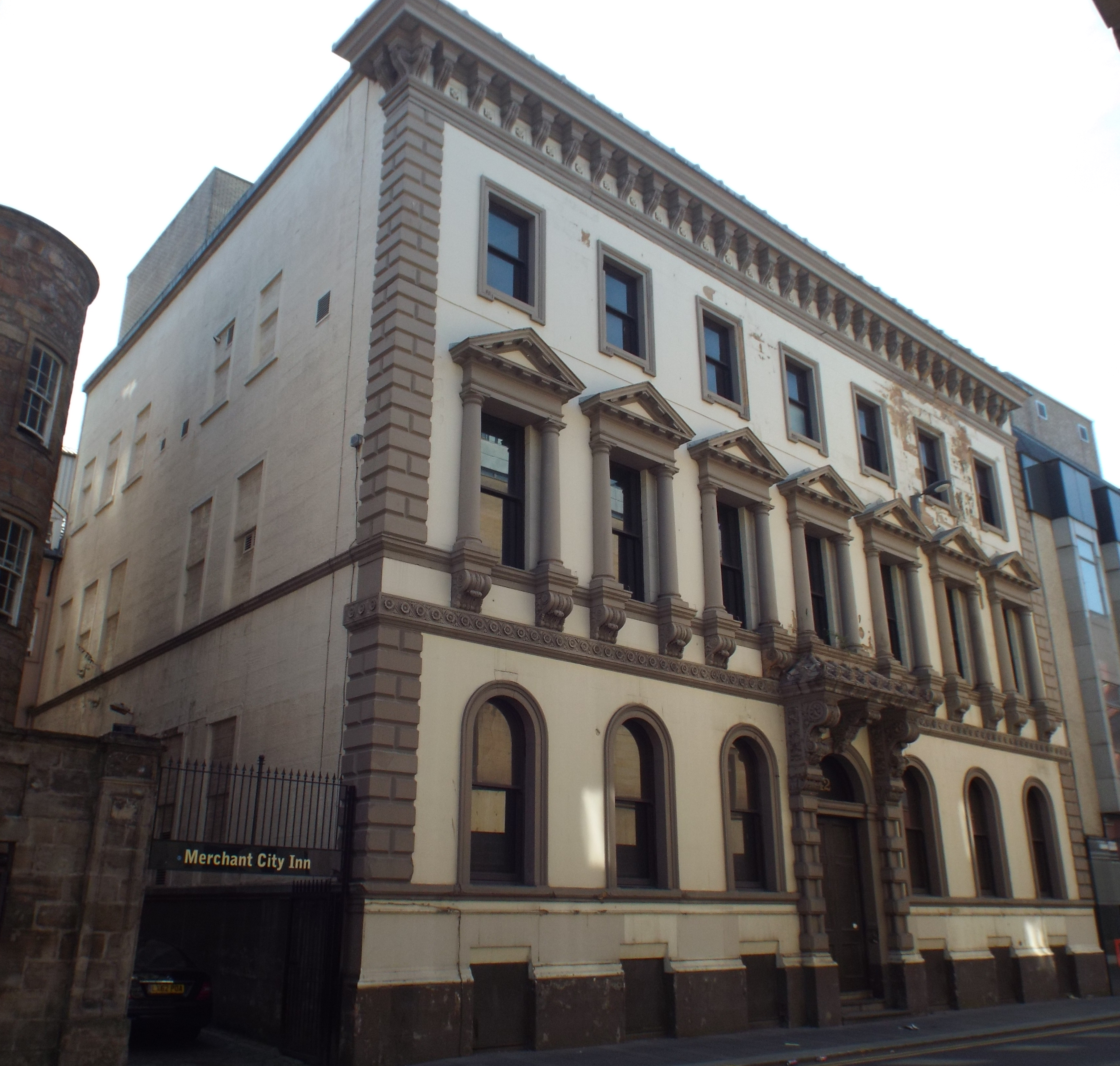 42 Virginia Street, Glasgow, 2018-06-27